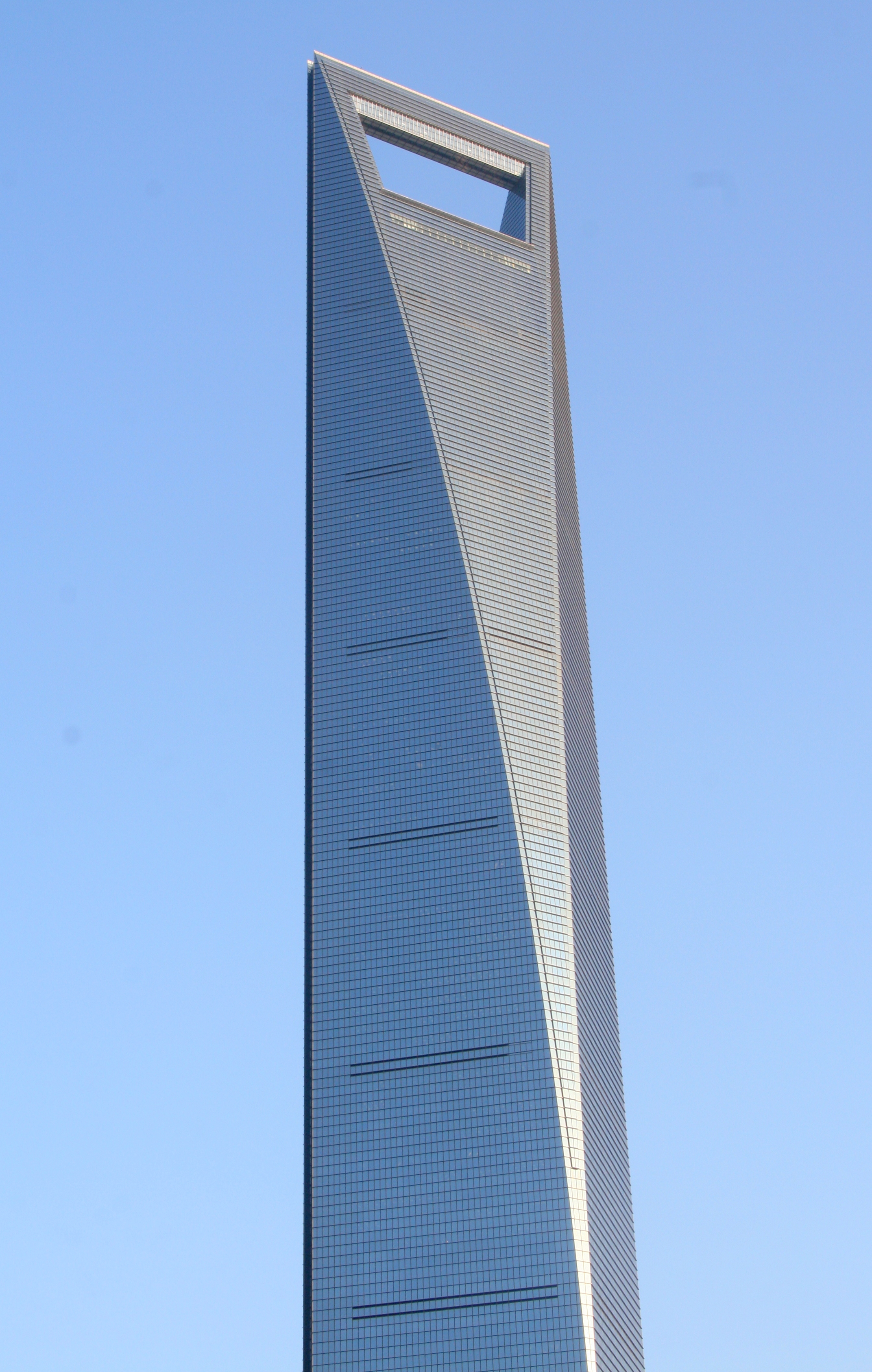 This is a distant picture of the Shanghai World Financial Center.